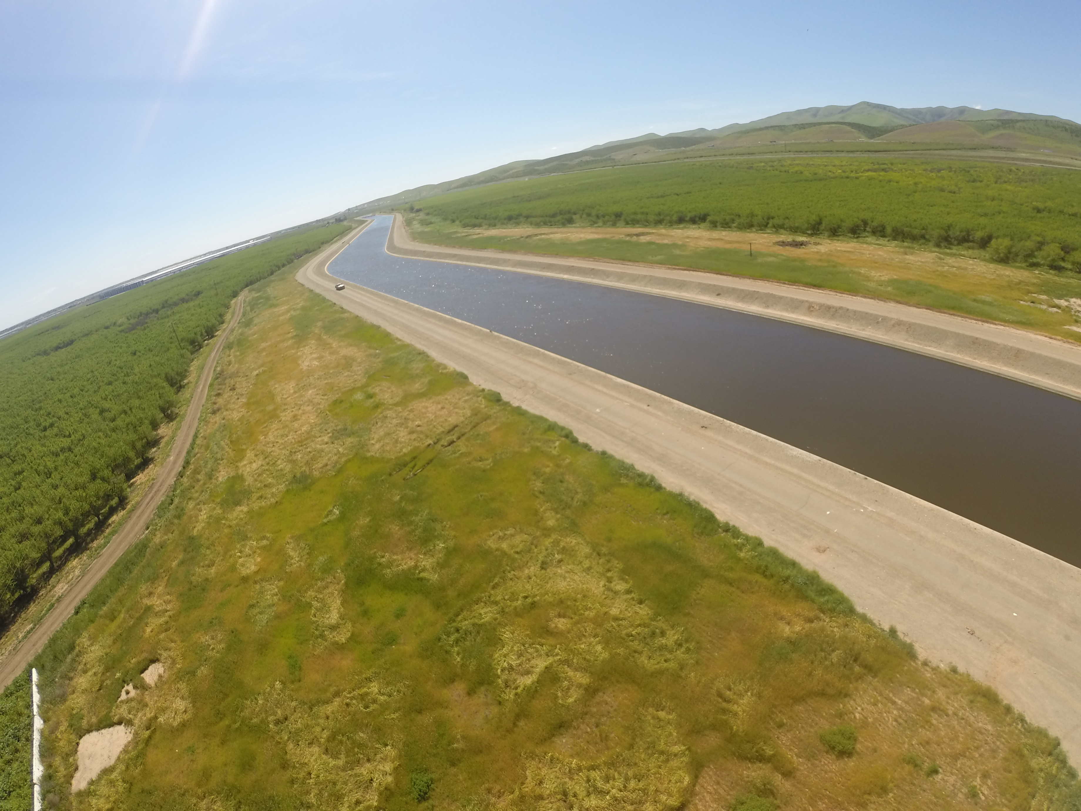 Oblique aerial photo with fish eye lens of the Delta Mendota Canal north of Patterson, California.